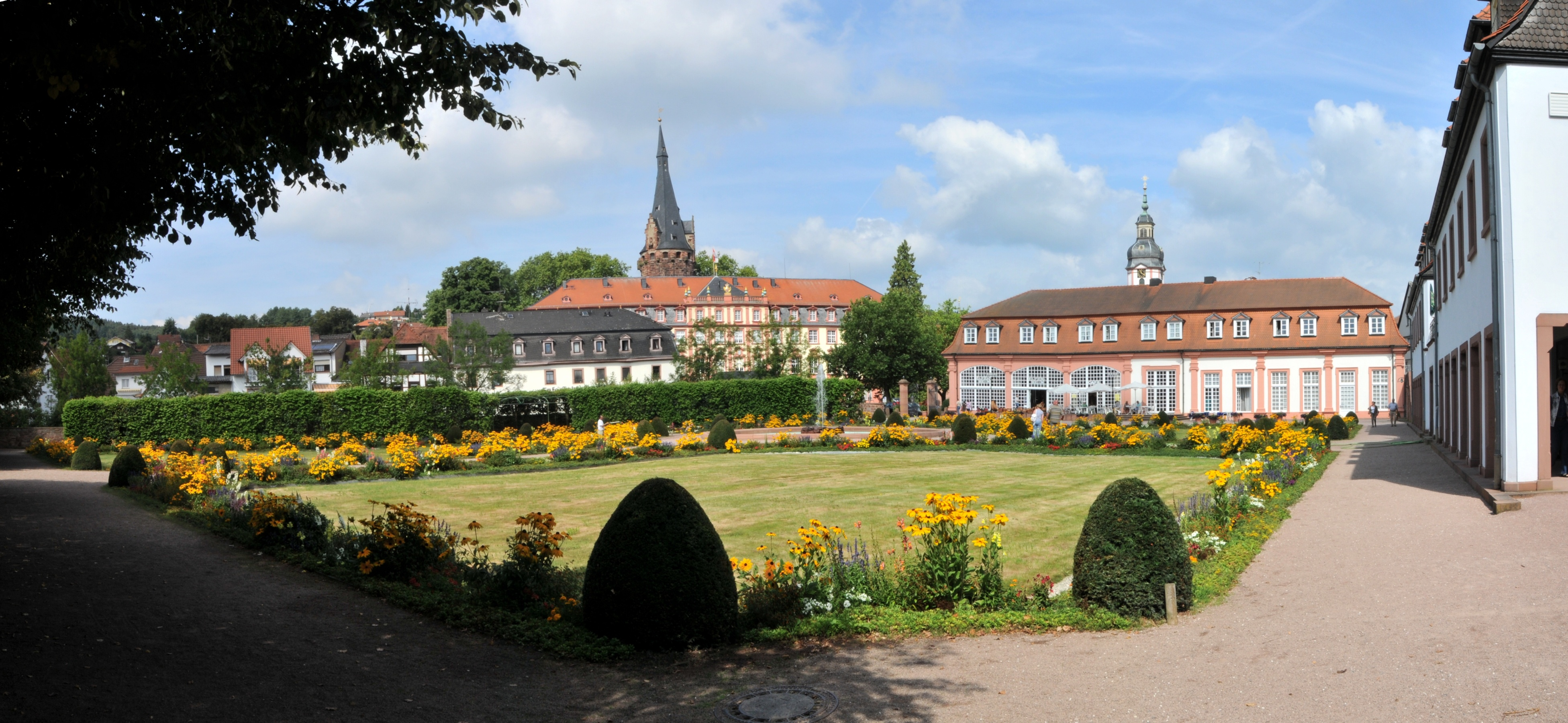 Erbach (Odenwald), Germany, palace garden, panorama, 2 pictures stitched